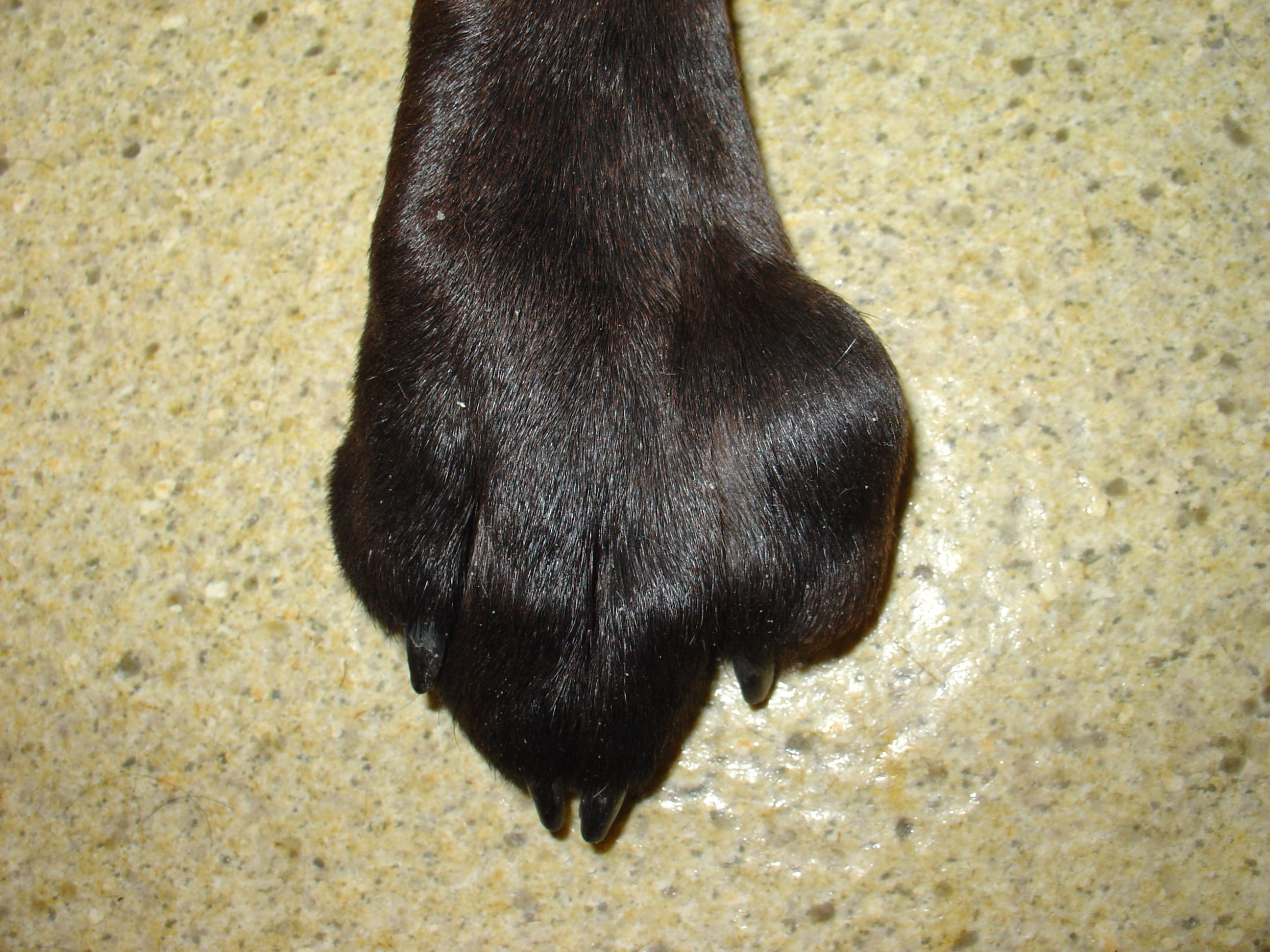 Mast cell tumor of the paw on a 7 year old Labrador Retriever (confirmed by biopsy).